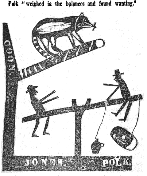 "Polk Weighed in the Balances and Found Wanting," a pro-Whig Party engraving showing two figures, representing Tennessee's 1843 gubernatorial candidates, James K. Polk and James C. Jones, on a scale. A raccoon, the symbol of the Whig Party, looks down from the branch above.